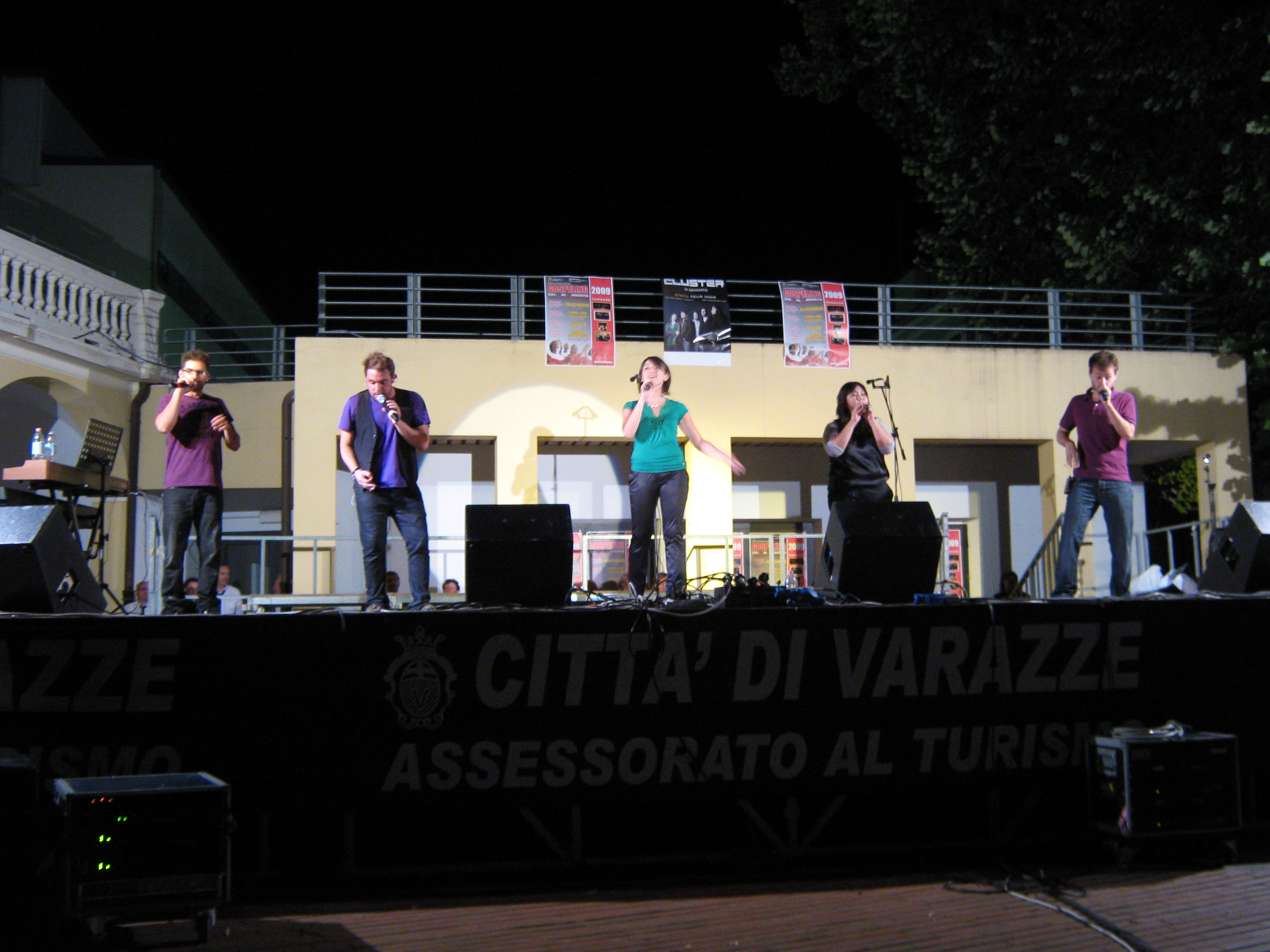 Cluster (italian musical group) in concert.